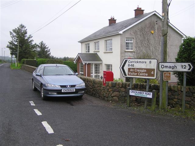 Crockanboy Road, Greencastle Heading WSW towards Creggan Crossroads